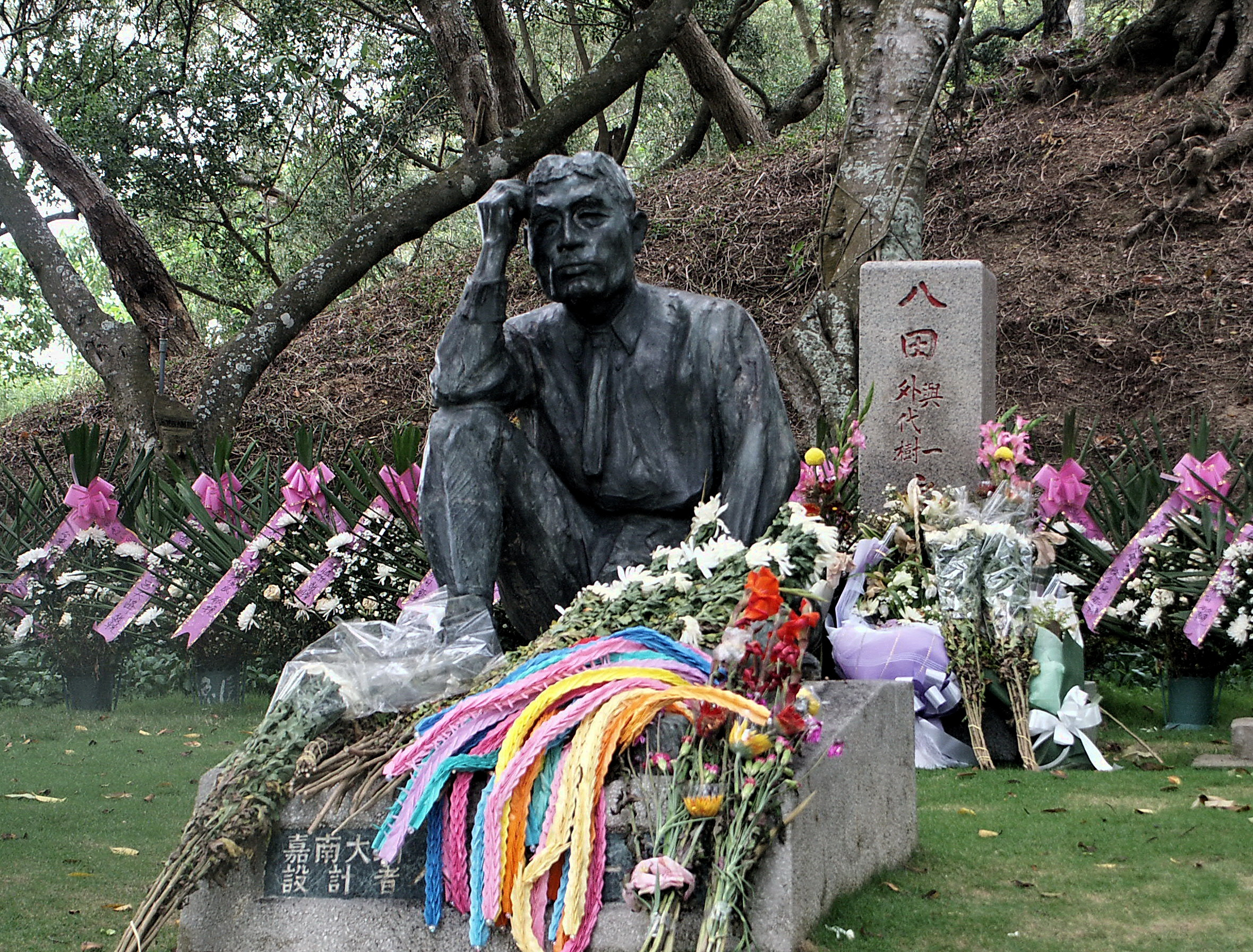 八田與一之墓 The Tomb of Yoichi Hatta